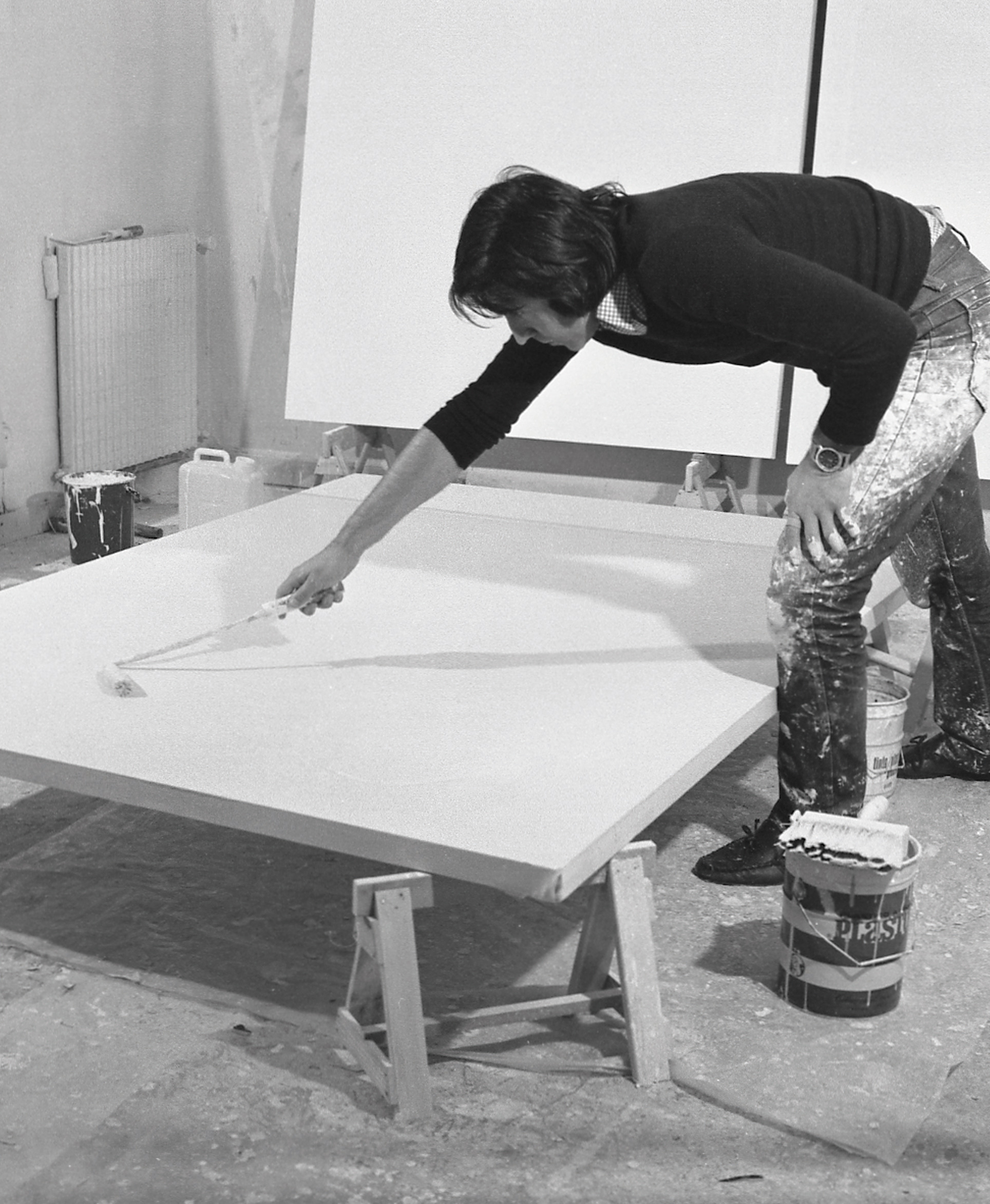 Gianfranco Zappettini at work, 1970s